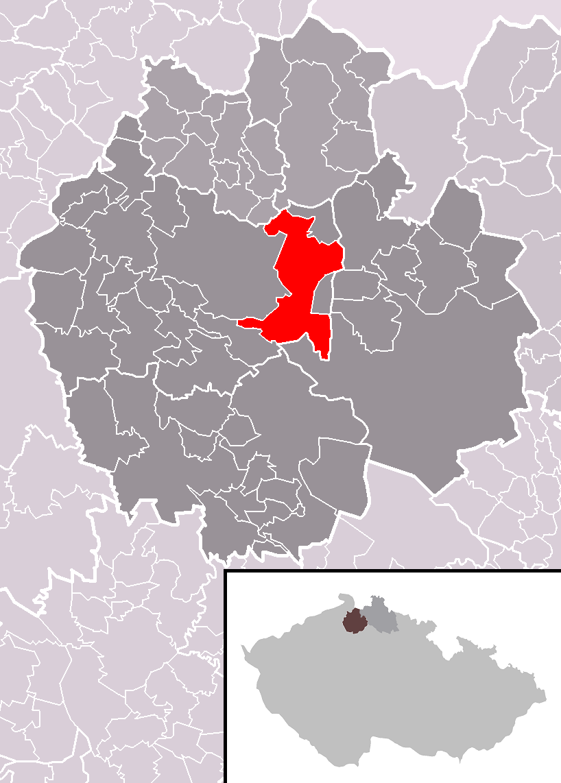 Location of Zákupy town within Česká Lípa District and administrative area of Česká Lípa as a Municipality with Extended Competence.